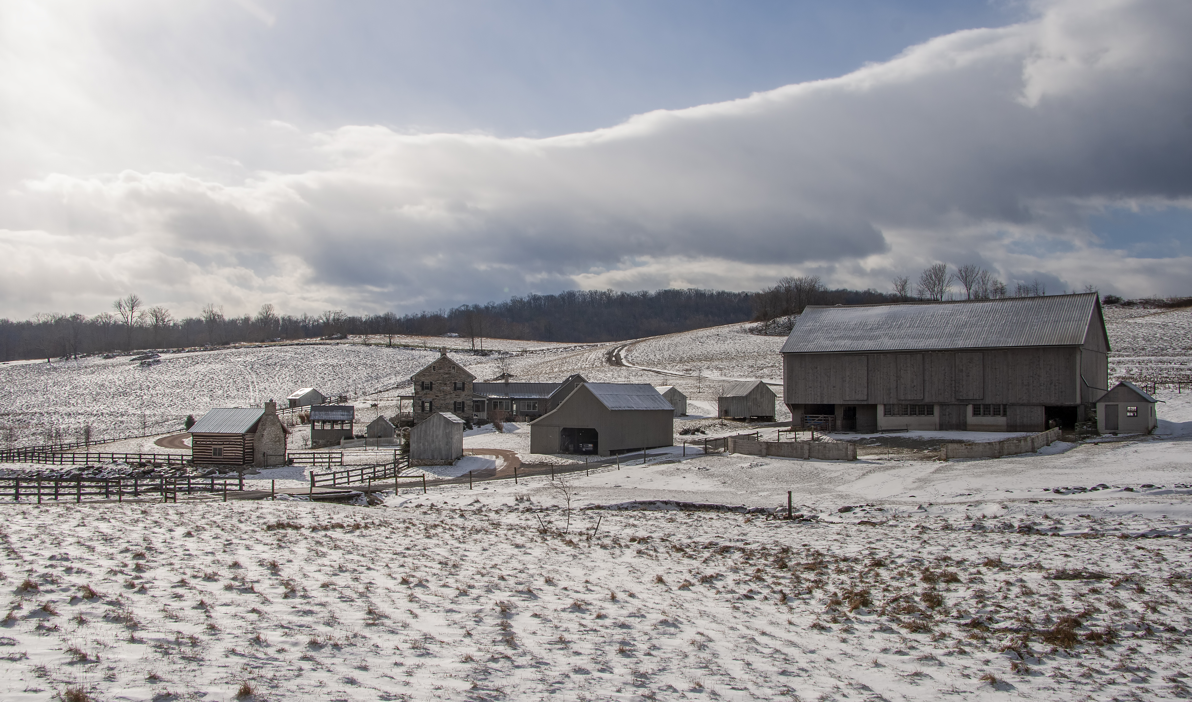 The Peter of P. Grossnickel Farm, near Wolfsville, Maryland, USA